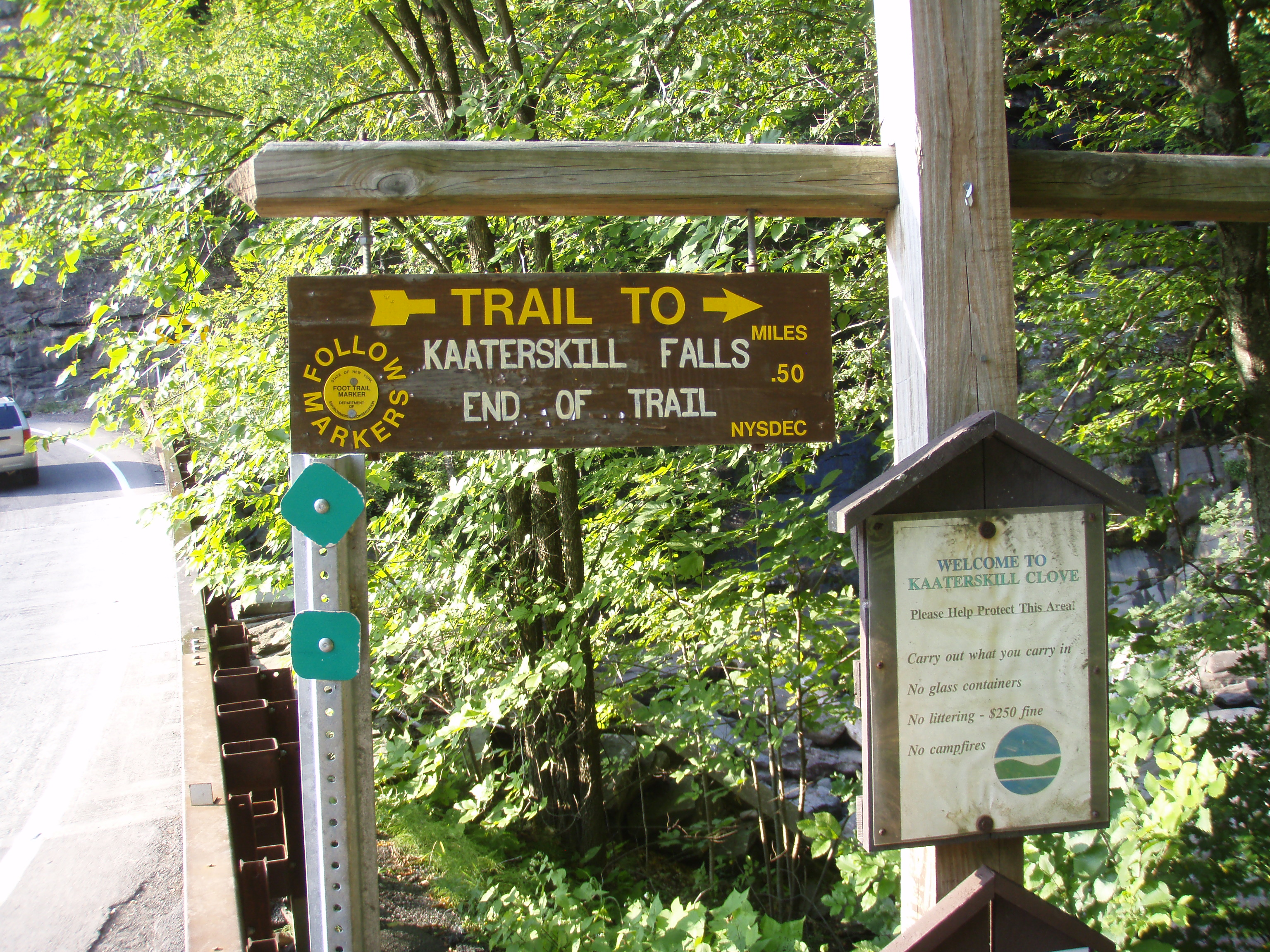 Sign that leads hikers to Kaaterskill Falls in Greene County, New York.